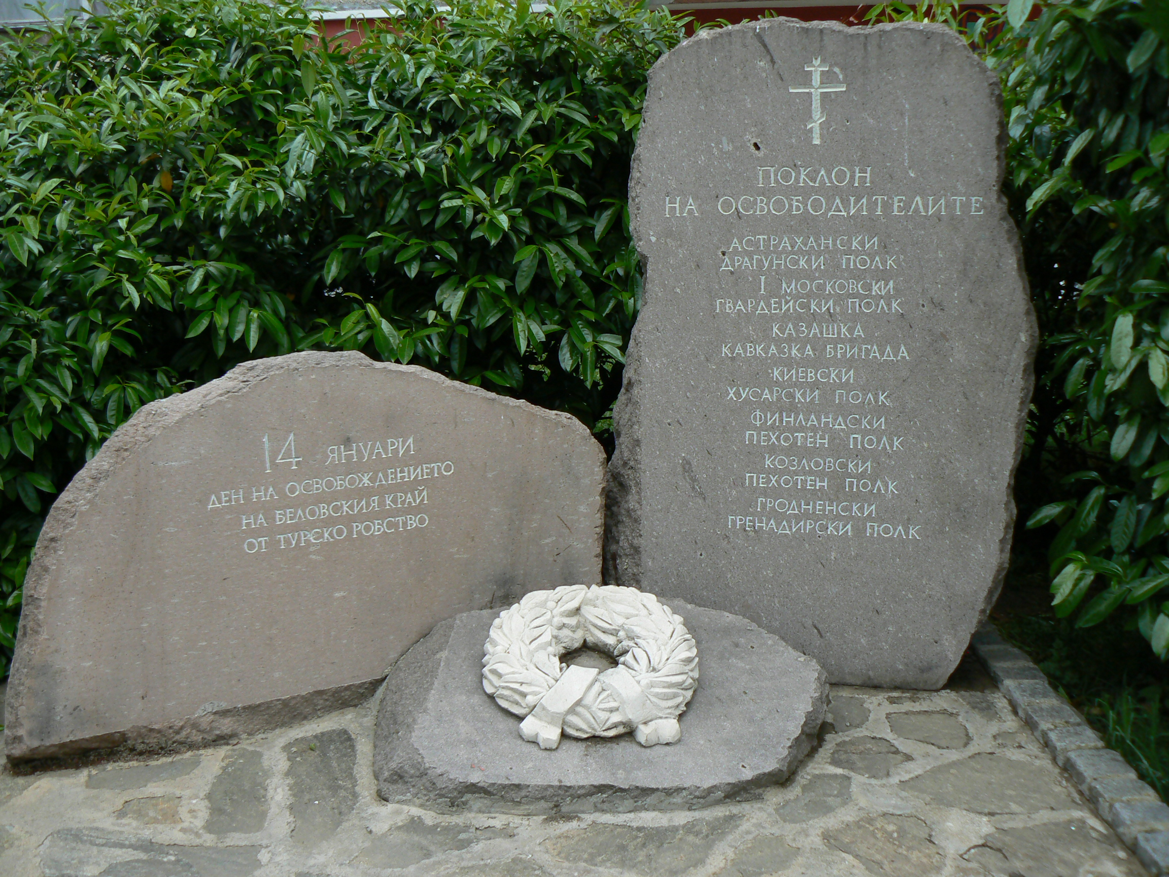 Monument of the liberty from Turkish yoke in town Belovo, Bulgaria